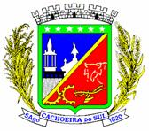 Coat of arm of the city of Cachoeira do Sul, Rio Grande do Sul, Brazil.